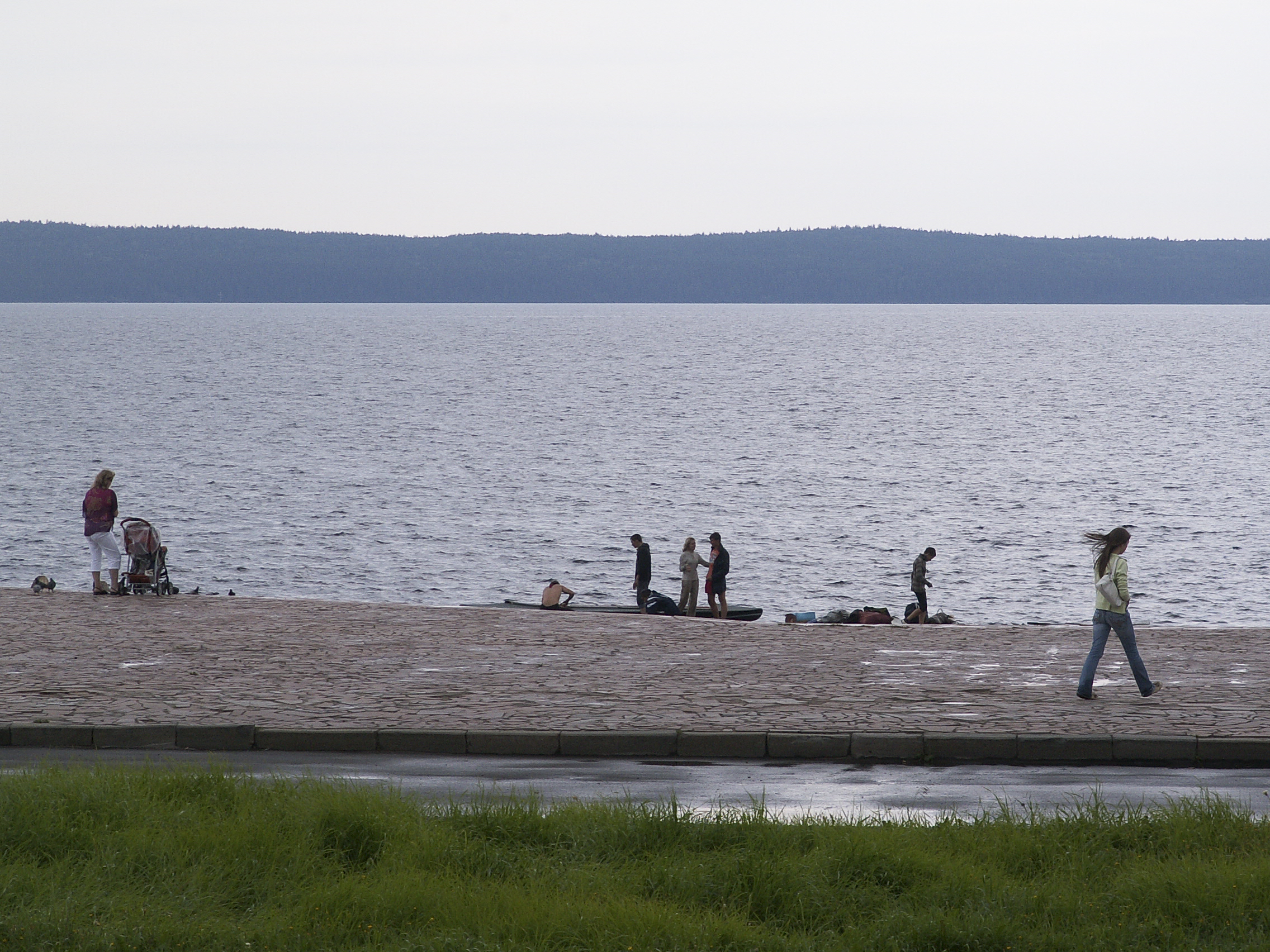 On a beach of Lake Onega